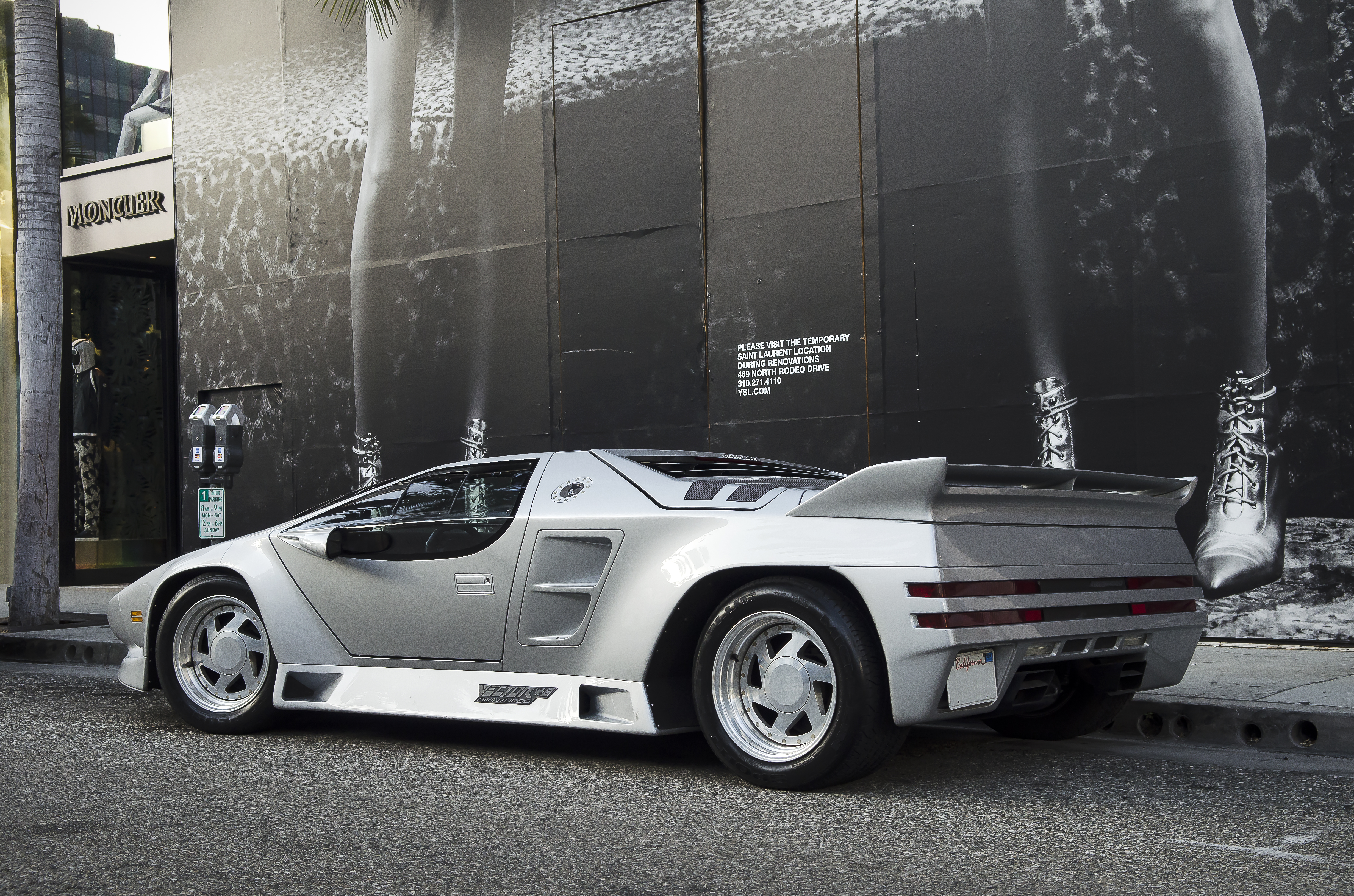 Vector W8 Twin Turbo spotted in Beverly Hills